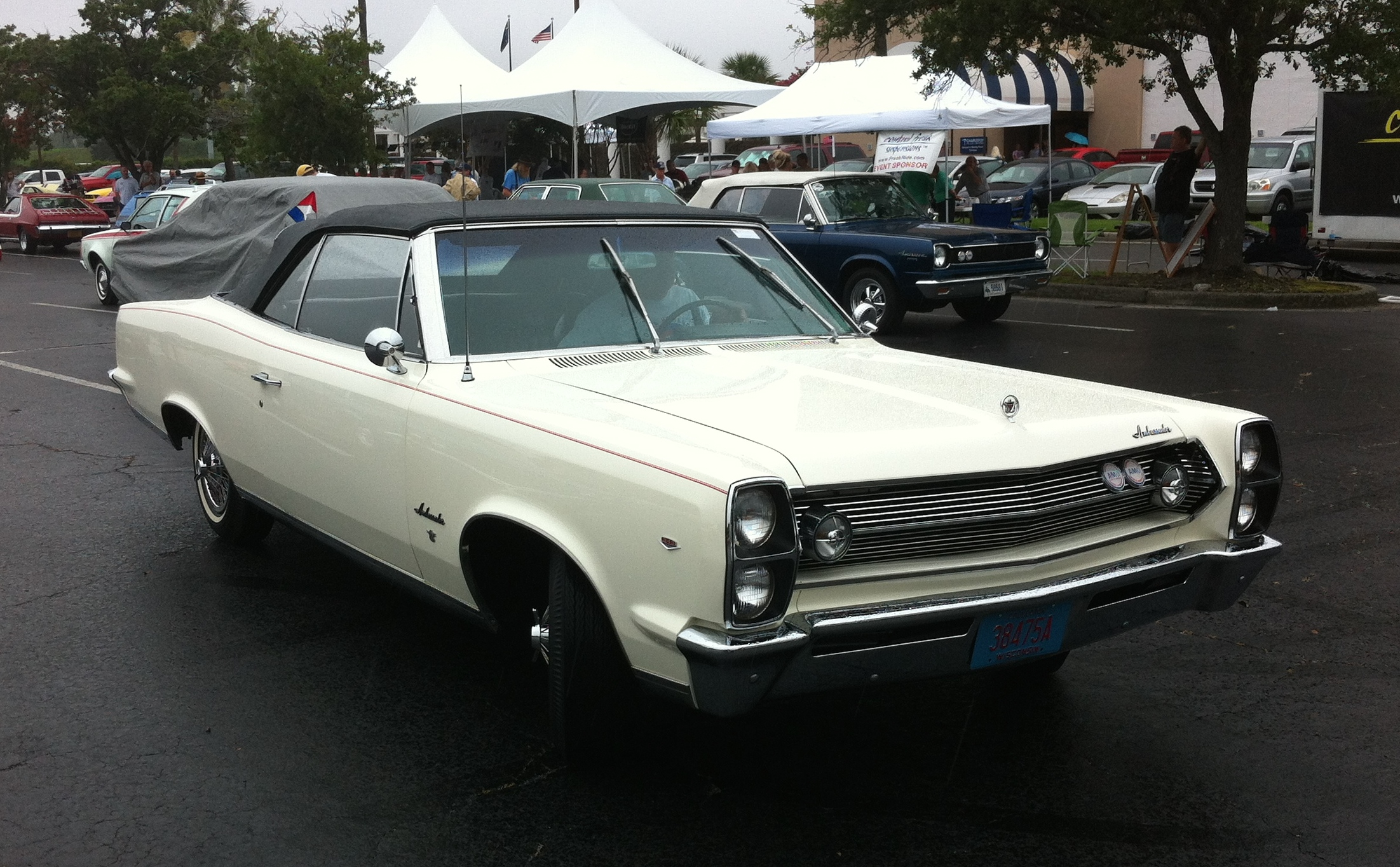 1967 AMC Ambassador DPL convertible finished in Frost White. This is the first year of the completely restyled longer, lower, and wider Ambassador built on a 118-inch (2,997 mm) wheelbase, but also the last time the convertible body design was available in the Ambassador line. This car also has American Motors' new 343 cu in (5.6 L) 4-bbl V8 engine producing 280 bhp (210 kW) and 365 pound force-feet (495 N·m) of torque. Photographed at the 2014 American Motors Owners (AMO) convention that was held in North Charleston, North Carolina, USA.